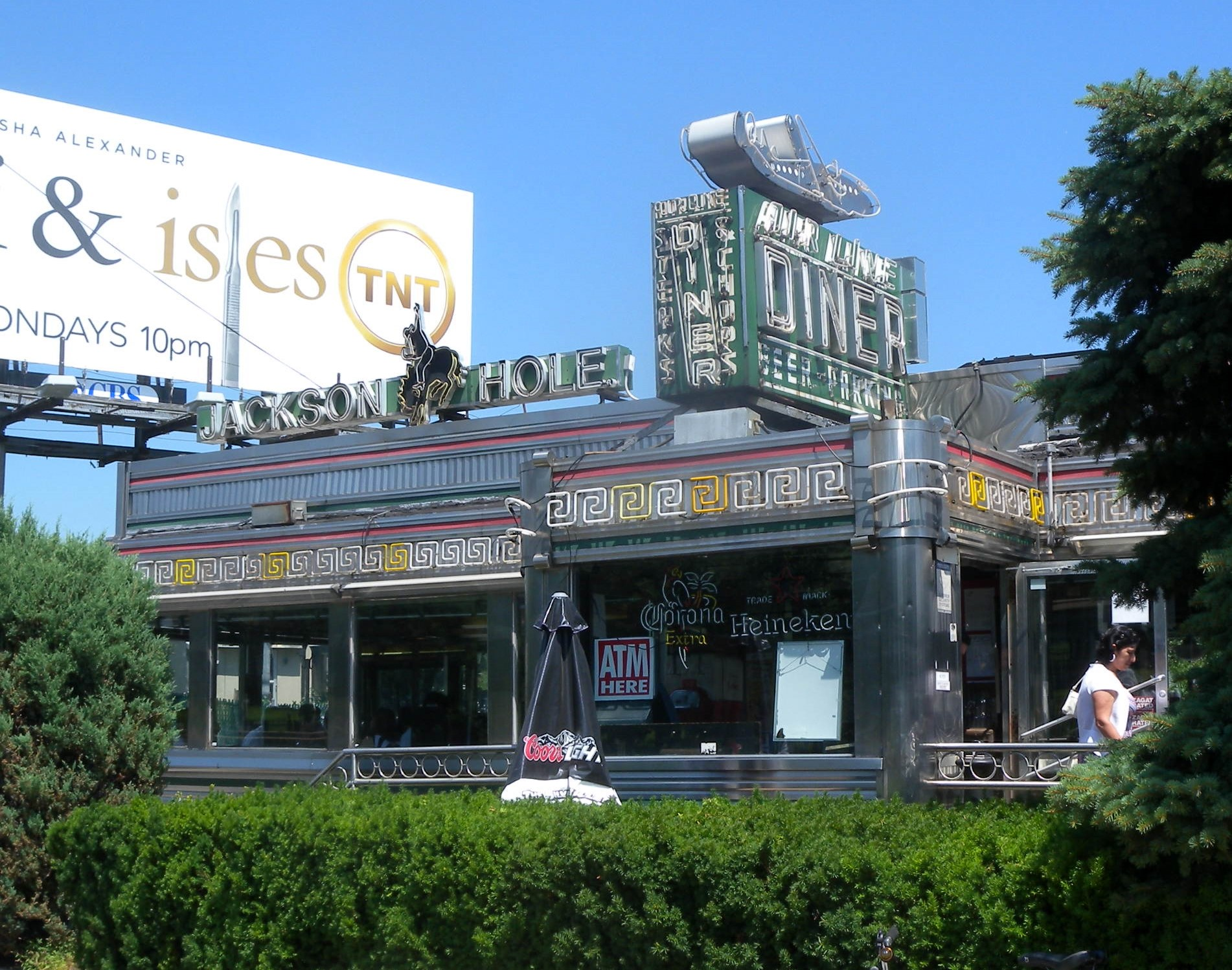 Looking north from Astoria Blvd at Air Line Diner on a sunny late morning.